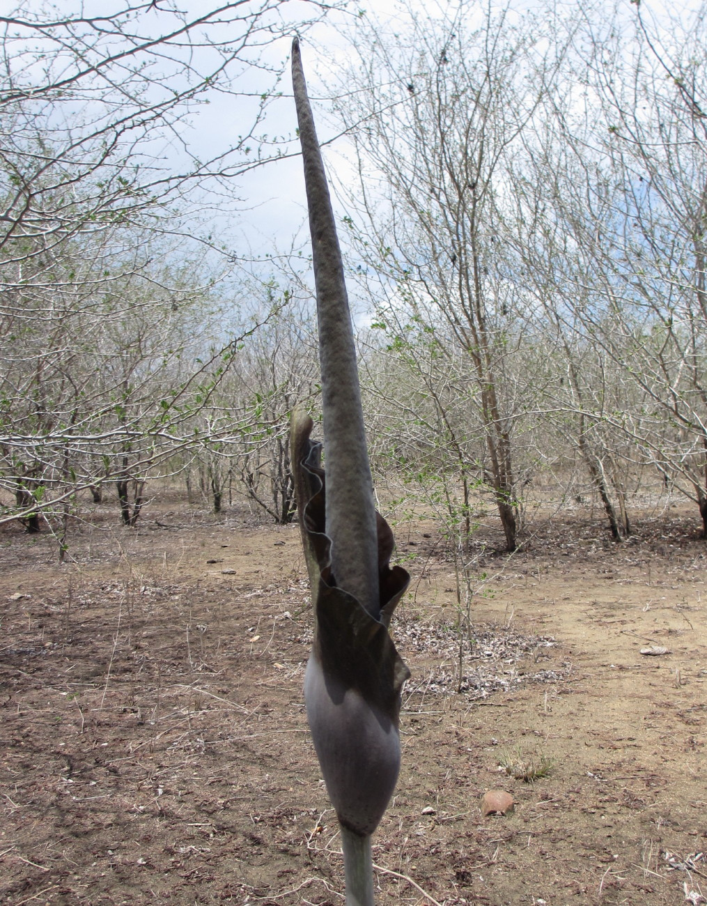 This species has an extremely long spadix (up to 81 cm) and dark, almost black, spathe 29 cm long. The entire inflorescence stands about 160 cm tall. Mecufi District of Northern Mozambique. Not typical for the original description is the colour of the outer surface of the spathe, blackish.